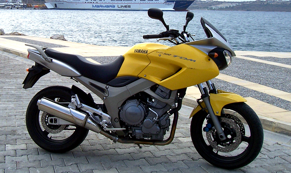 My Motorbike Yamaha TDM 900 in Cesme/Turkey